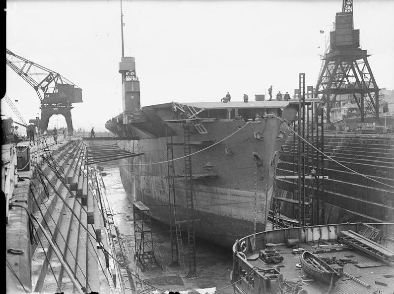 The British Merchant Aircraft Carrier (MAC) ship MV Empire MacAlpine in dry dock at Messrs Cammel Lairds at Birkenhead.